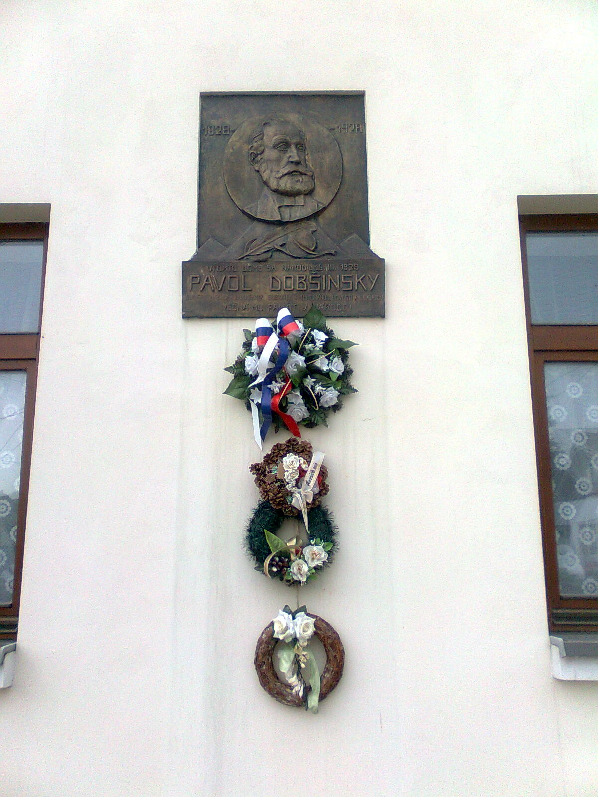 Pavol Dobšinský birth house, memorial plaque